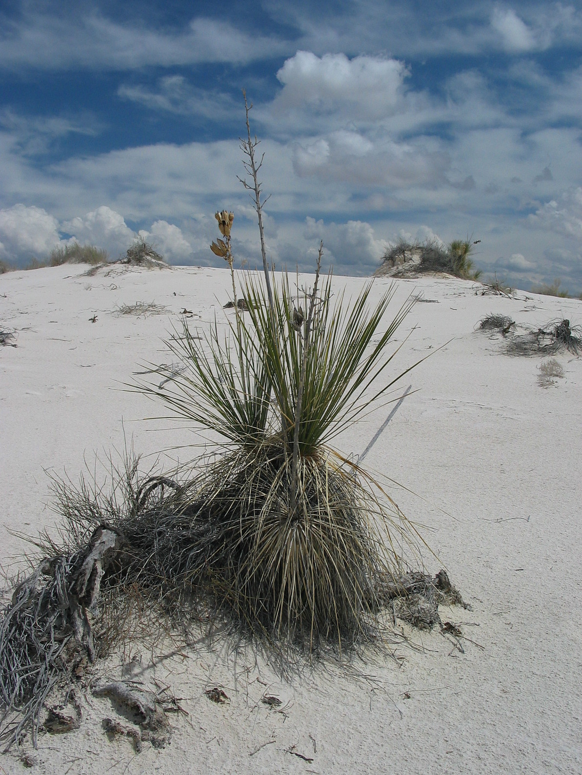 Spares vegetation in the gypsum dunes of White Sands National Monument